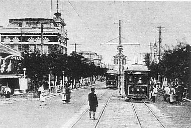 Heijo(Pyongyang) Tram